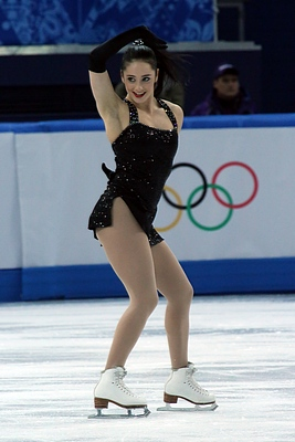 Canadian figure skater Kaetlyn Osmond at the 2014 Winter Olympics.